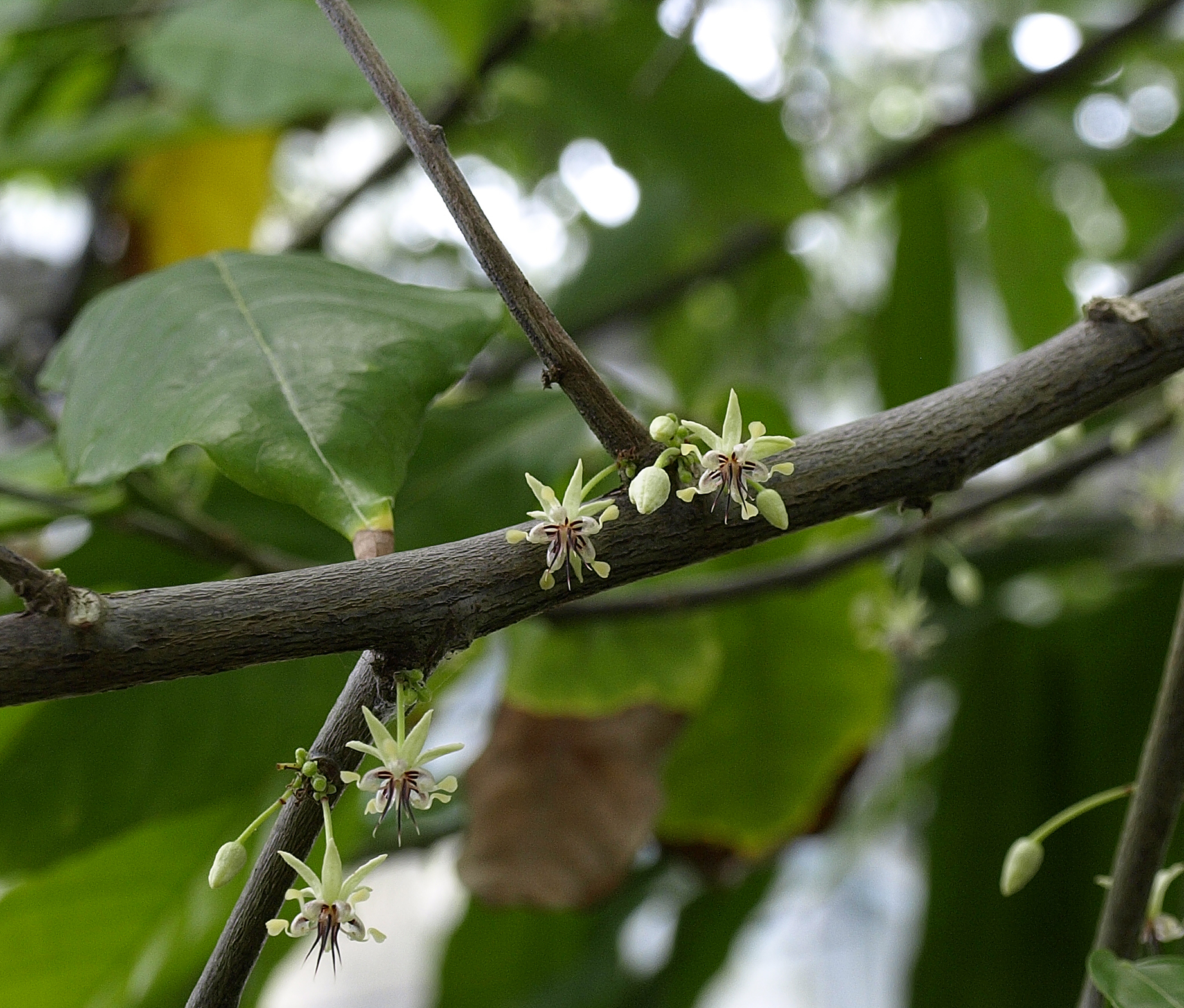 Theobroma cacao in Wertheim Conservatory, Florida International University, Miami, Florida, USA